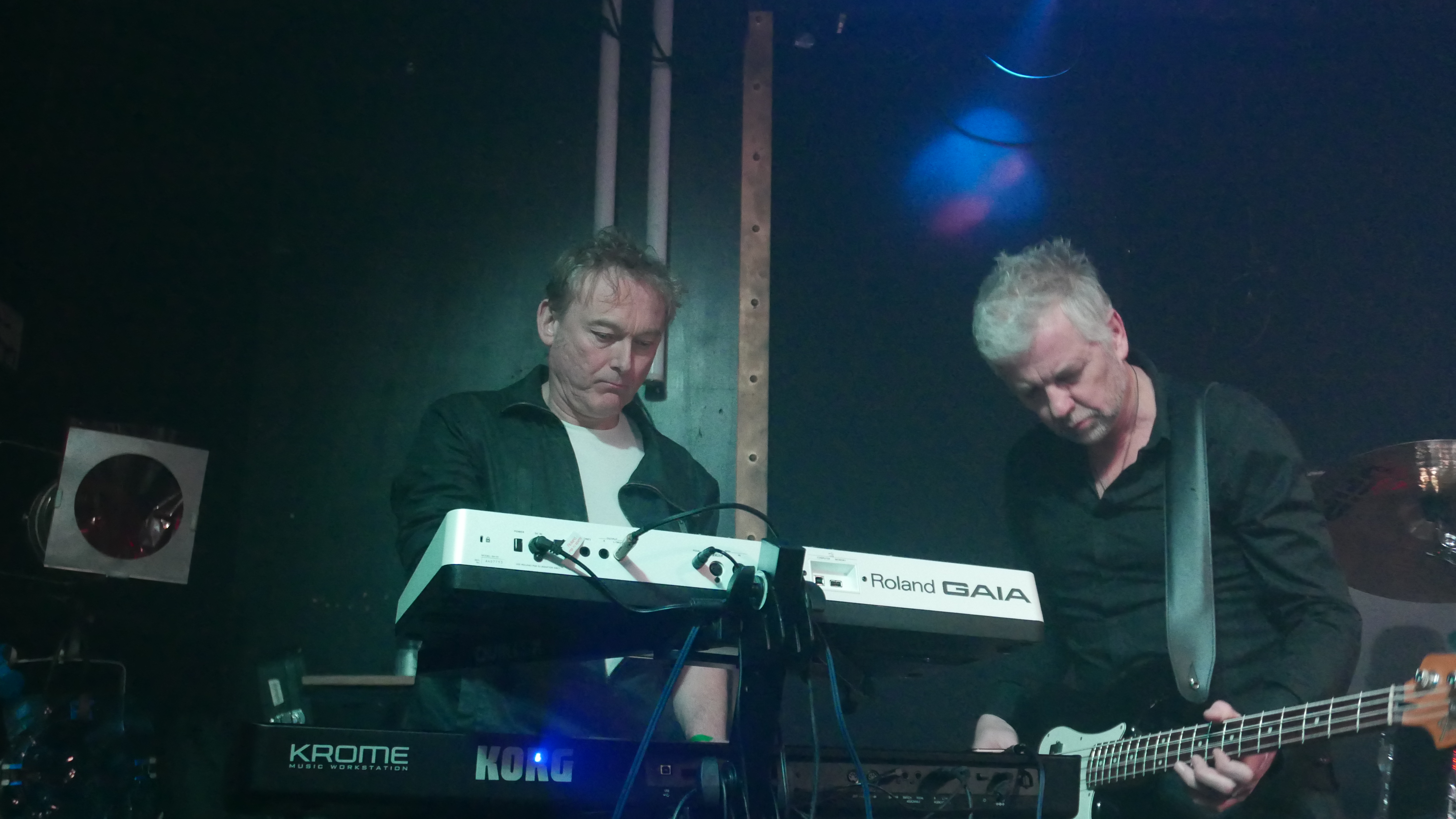 B Movie at Electrowerkz with JKeyboards